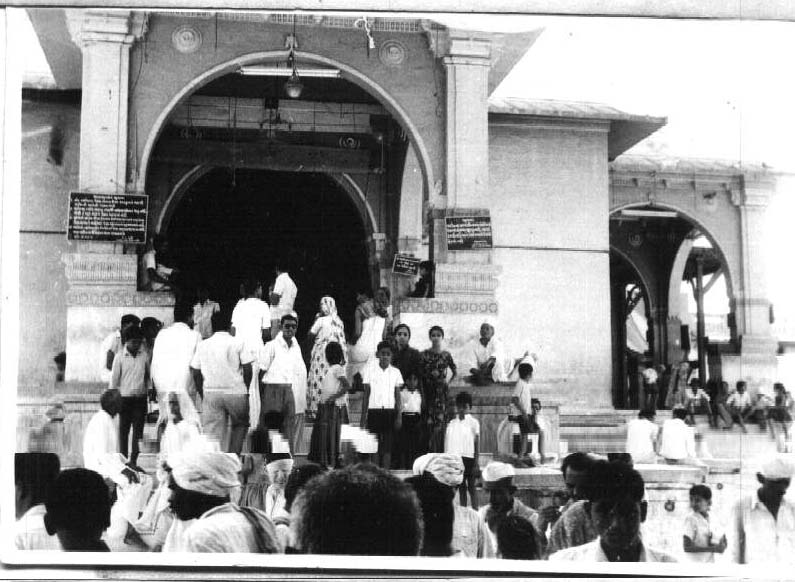 Photo taken by me using B & W film camera.Photo shows Dakore_temple-View1.